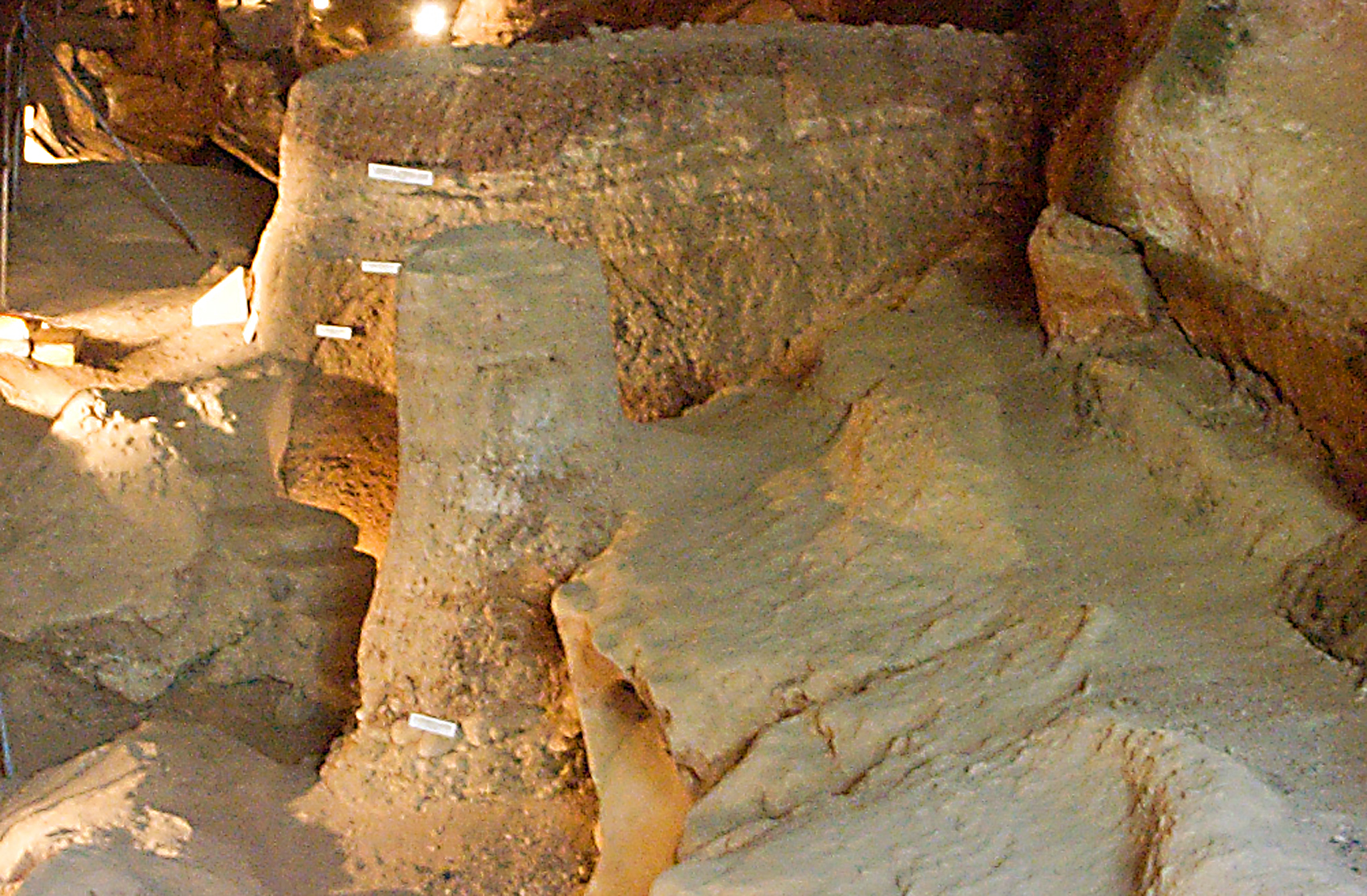 coupe stratigraphique This media is about Maltese cultural property with inventory number 29.